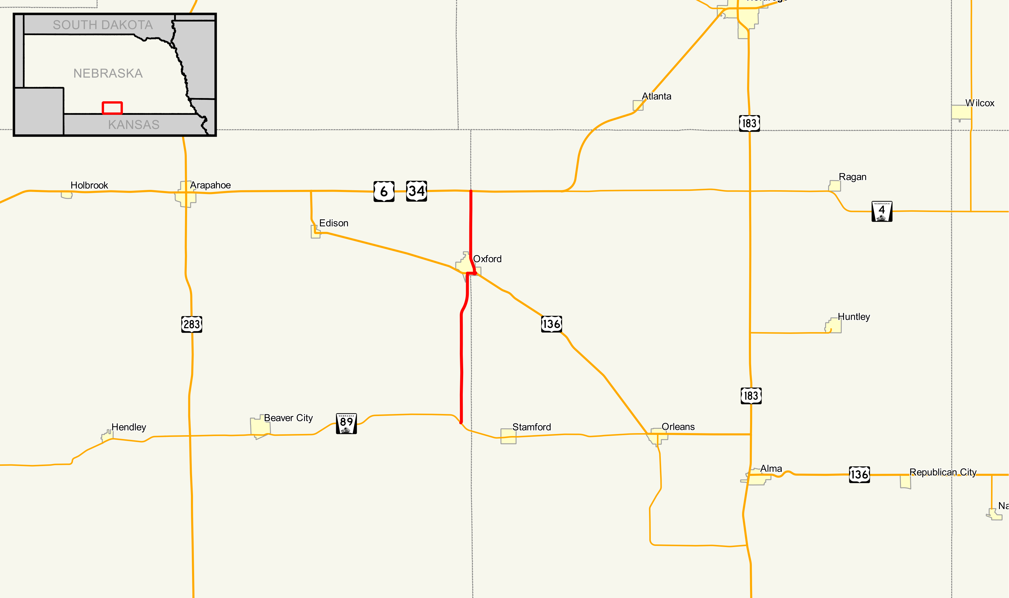 Map of Nebraska Highway 46 Data Sources: Nebraska Highways - - Dec 2016 Nebraska County Boundaries - - Dec 2016 Nebraska City Boundaries - - Dec 2016 This PNG graphic was created with QGIS